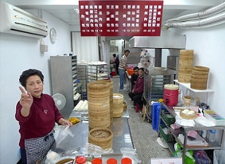 Guting369